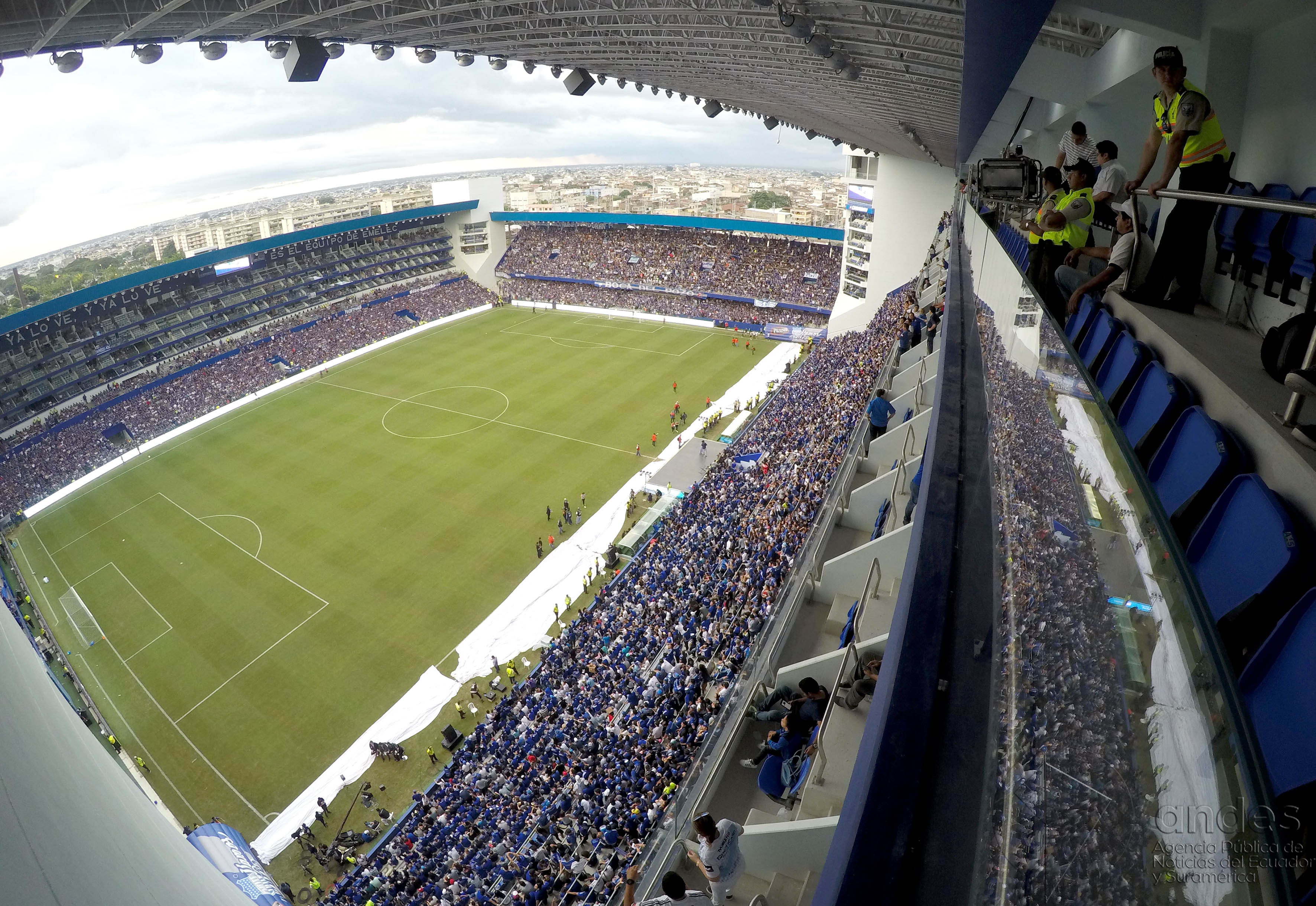 Guayaquil, miércoles 08 de febrero del 2017 (Andes).-Con una capacidad para cerca de 40 mil espectadores, sistemas tecnológicos y nuevo estilo arquitéctonico se reinaguró el estadio Arena Banco del Pacifico-Capwell.Foto:Andes/César Muñoz